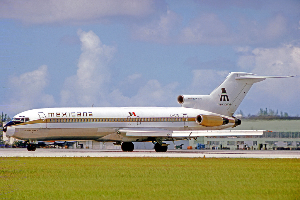 Boeing 727-264 XA-CUE of Mexicana at Miami International Airport in 1975